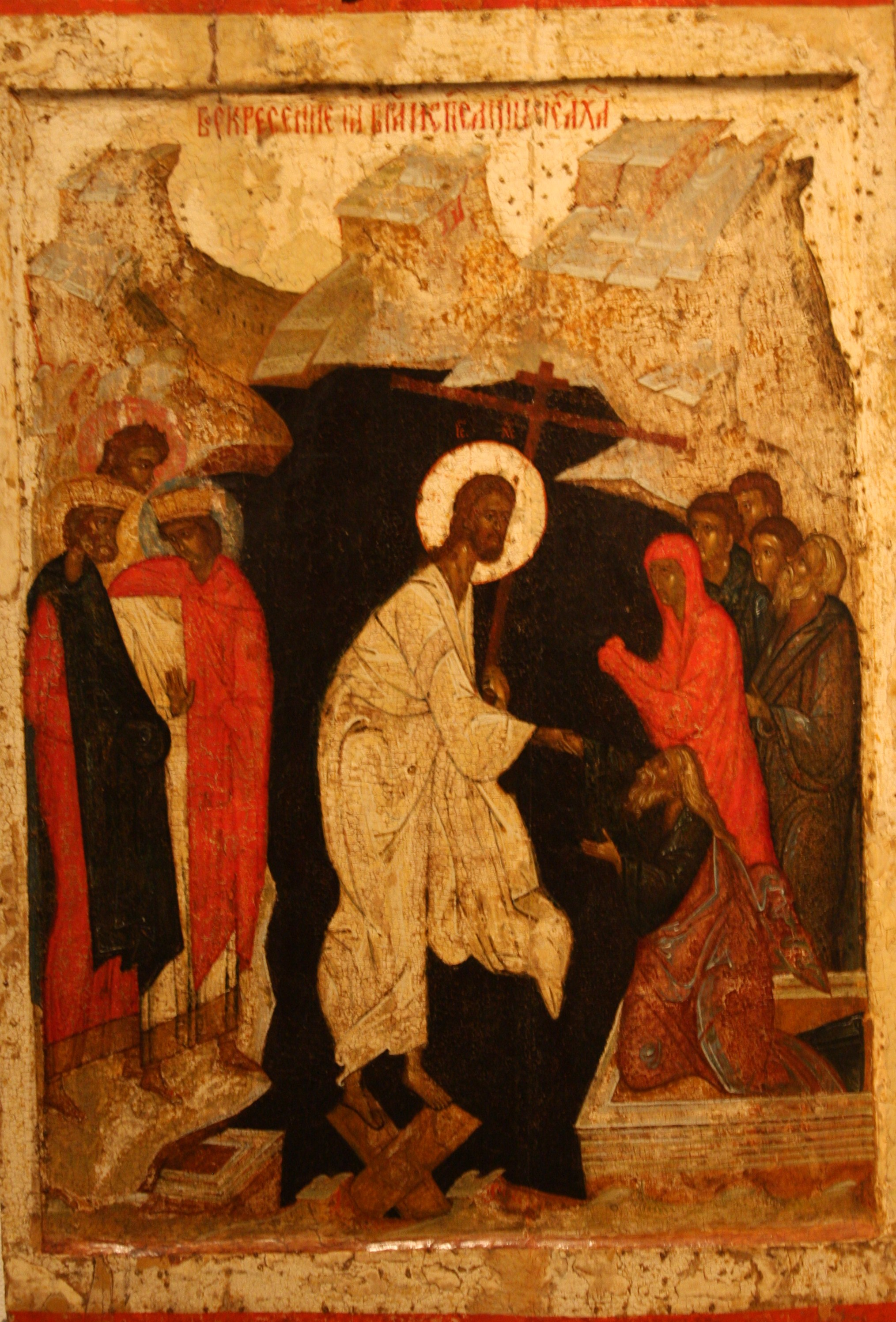 Russian Icon from the 1500s, depicting the Anastasis. National Museum, Stockholm ( NMI 296).